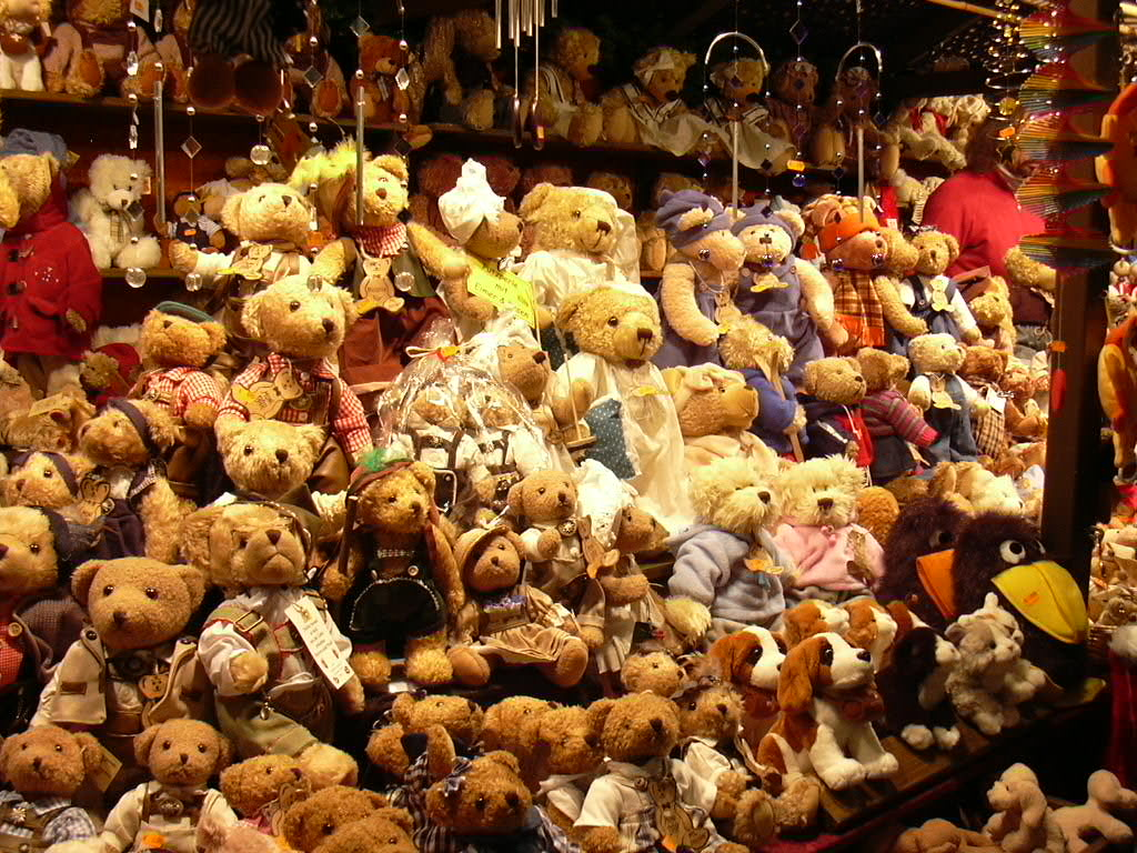 Christmas Markt in Stuttgart 2004